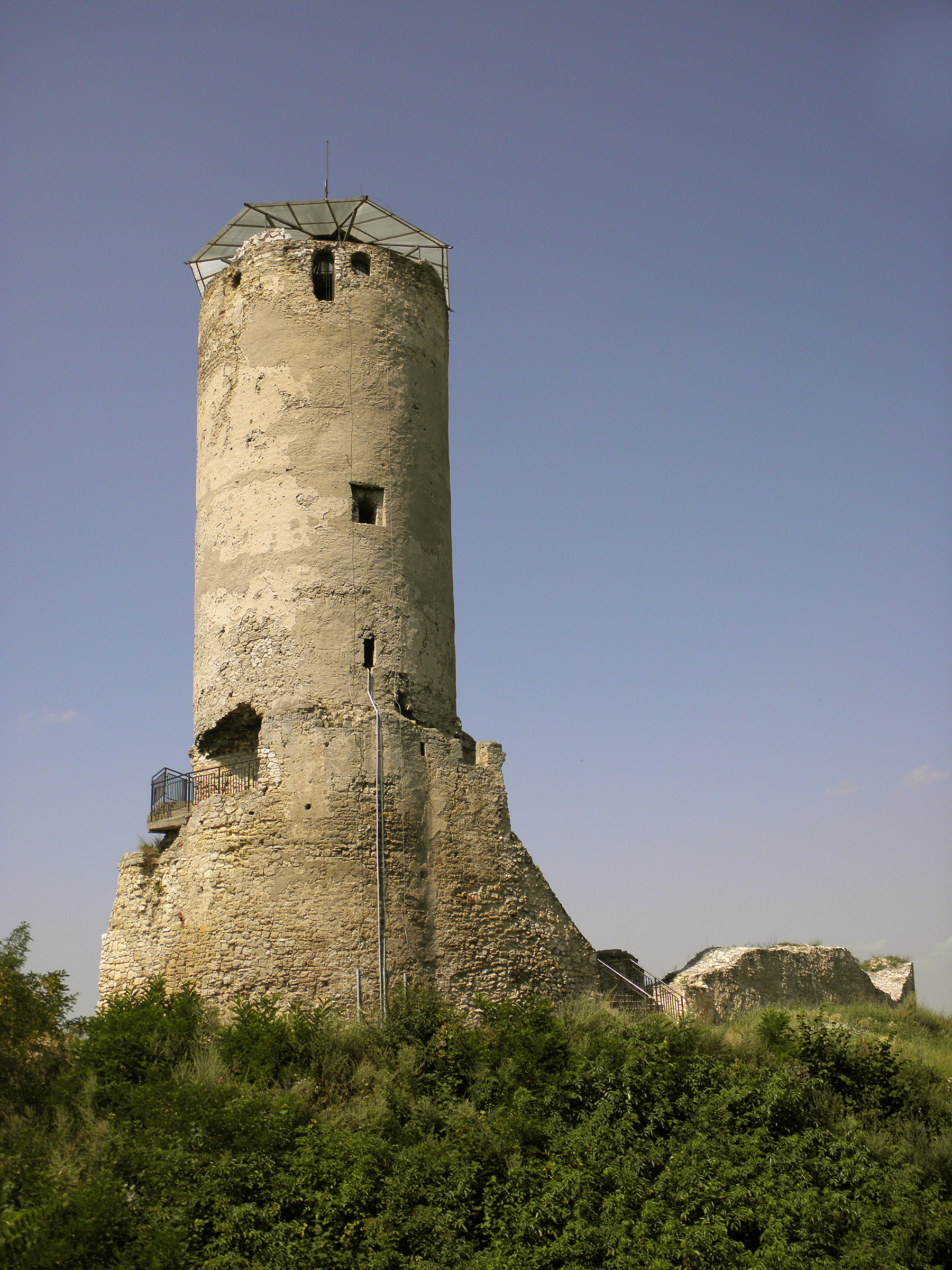 Tower of bishop's castle in Iłża, Poland.